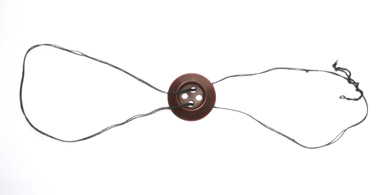 A button whirligig — a traditional Ukrainian toy. It is also known as a button spinner or buzzer.